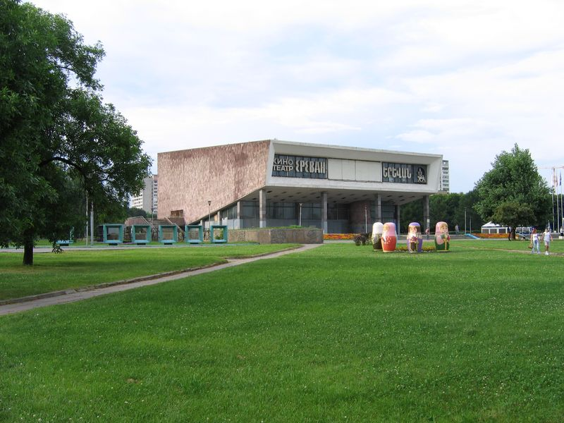 Cinema in Moscow, Russia.